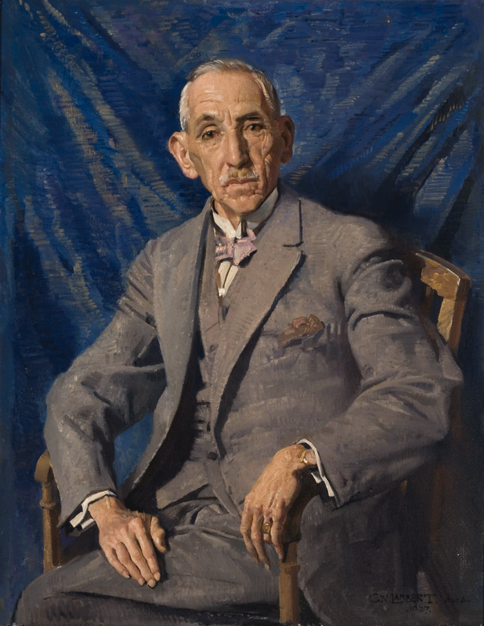 The Rt. Hon. William Morris Hughes CH KC, Prime Minister of Australia (1915–23).